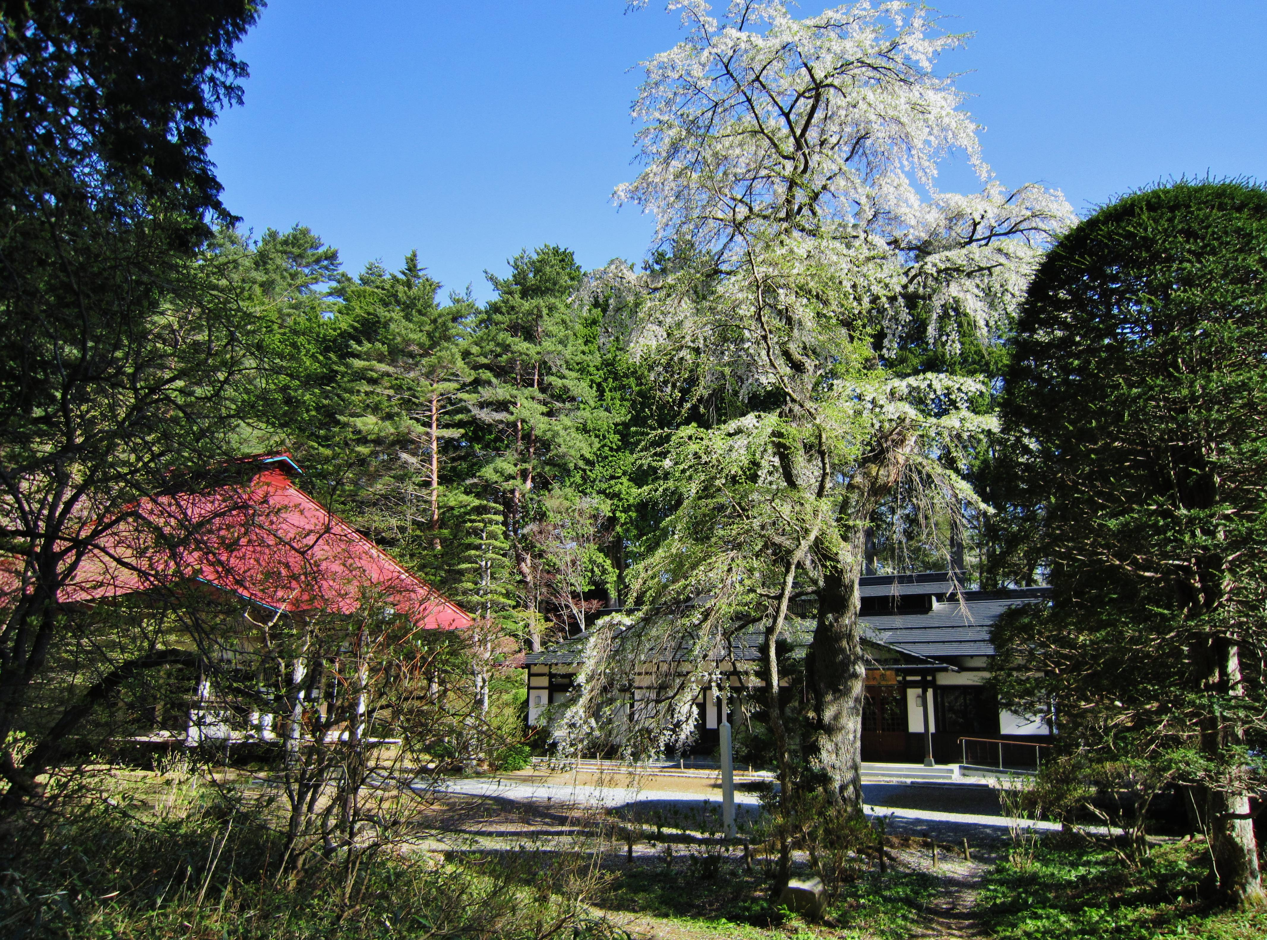 Kiyomizu-dera (Yamagata, Nagano) Gyōkizakura.